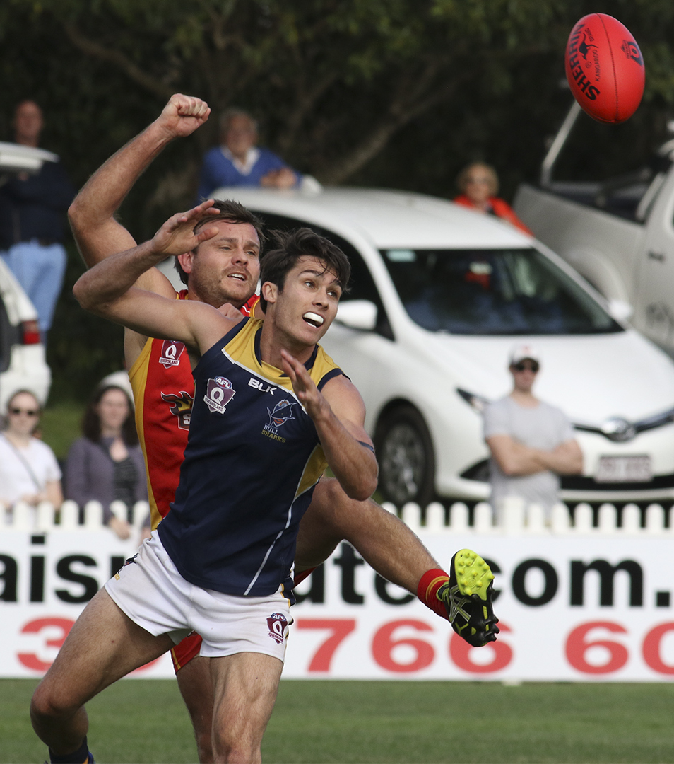 Australian rules footballer preparing to spoil an opponent's attempt at mark by punching the ball.